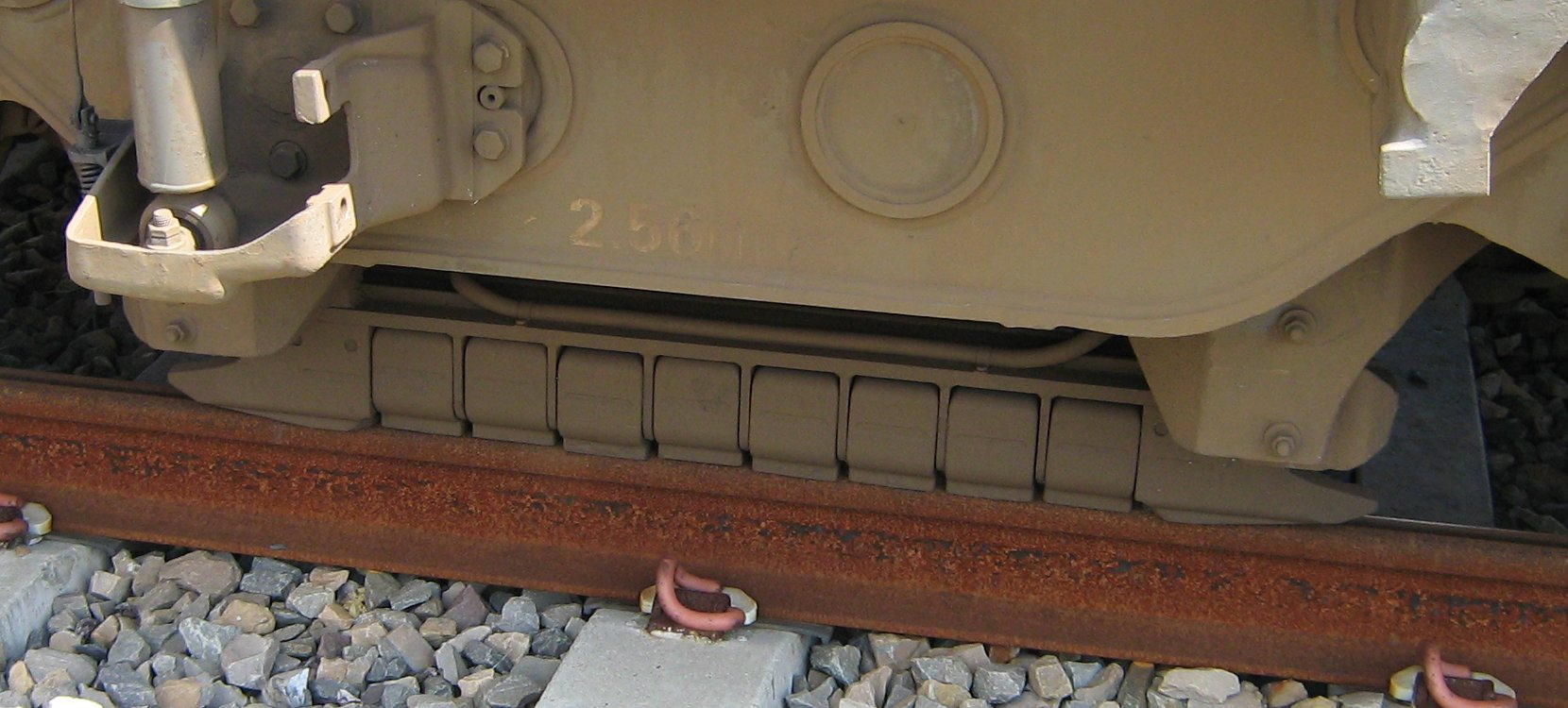 View of an electromagnetic brake on an AM96 EMU of the SNCB/NMBS.